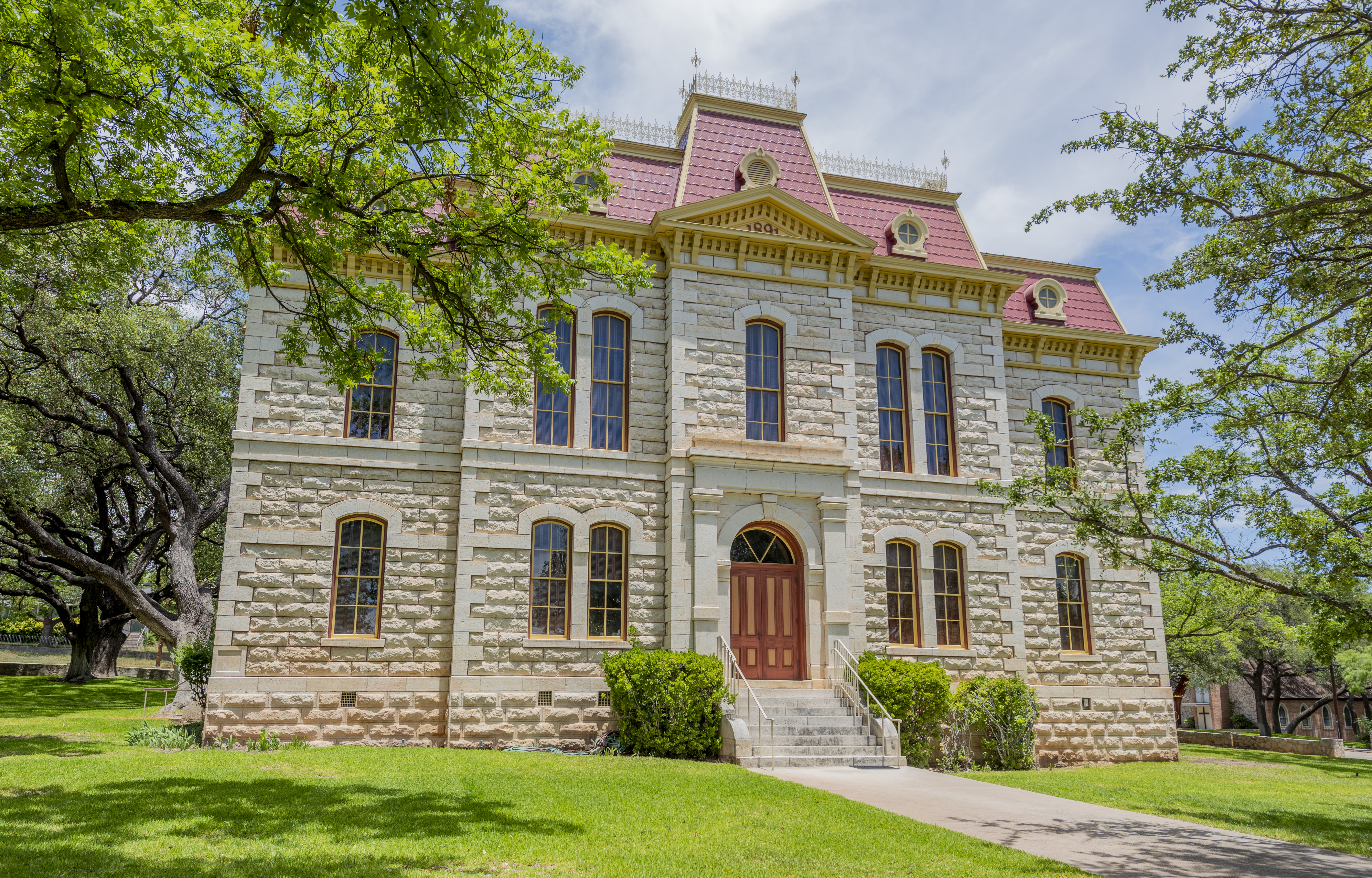 Image of the Sutton County courthouse located in Sonora, Texas. Taken in May 2020.